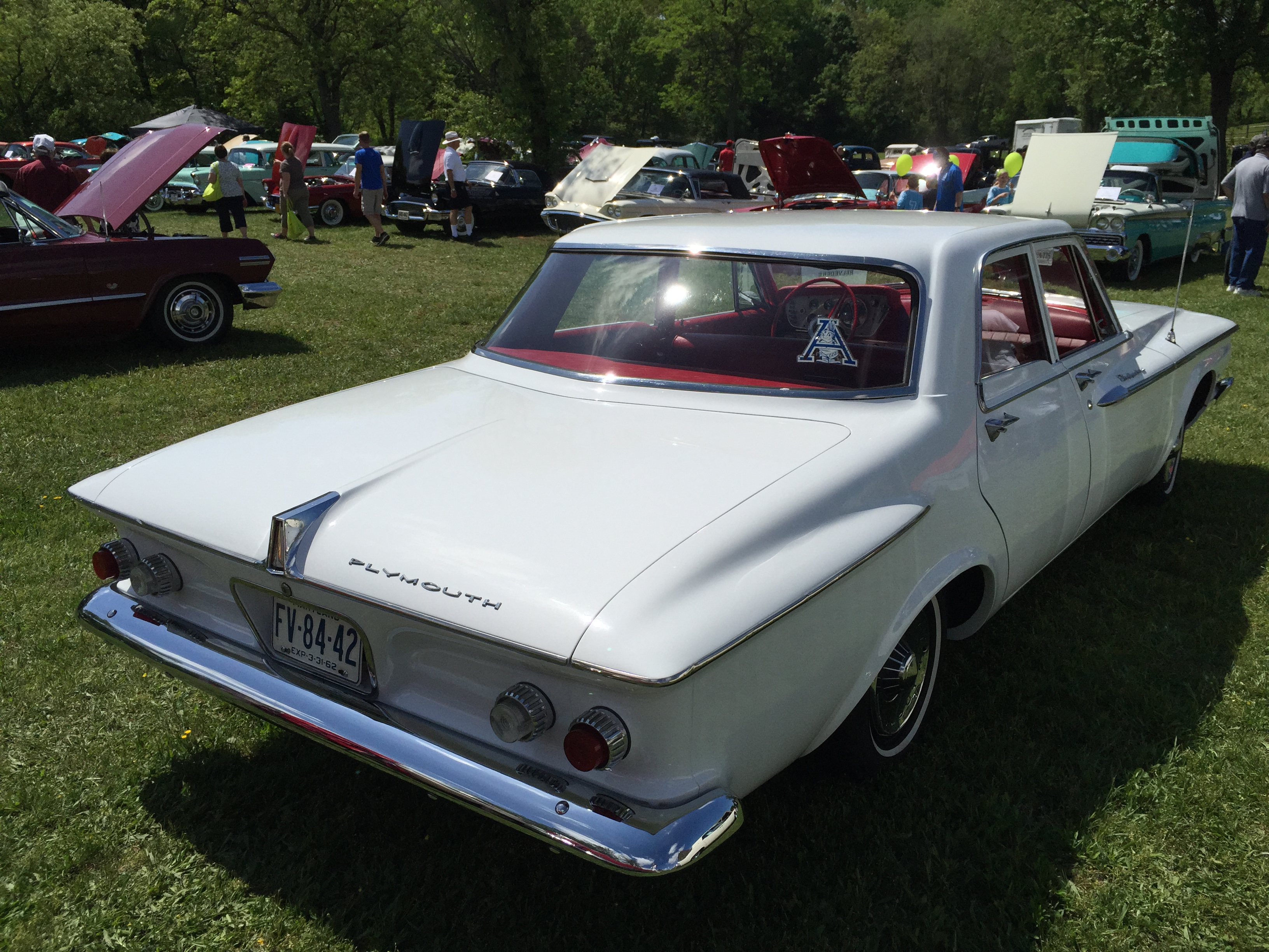 1962 Plymouth Belvedere four-door sedan finished in white with red interior. First year that the full-size Plymouths were "downsized" to more compact outside dimensions. Photographed at 2015 Shenandoah Antique Automobile Club of America (AACA) meet.